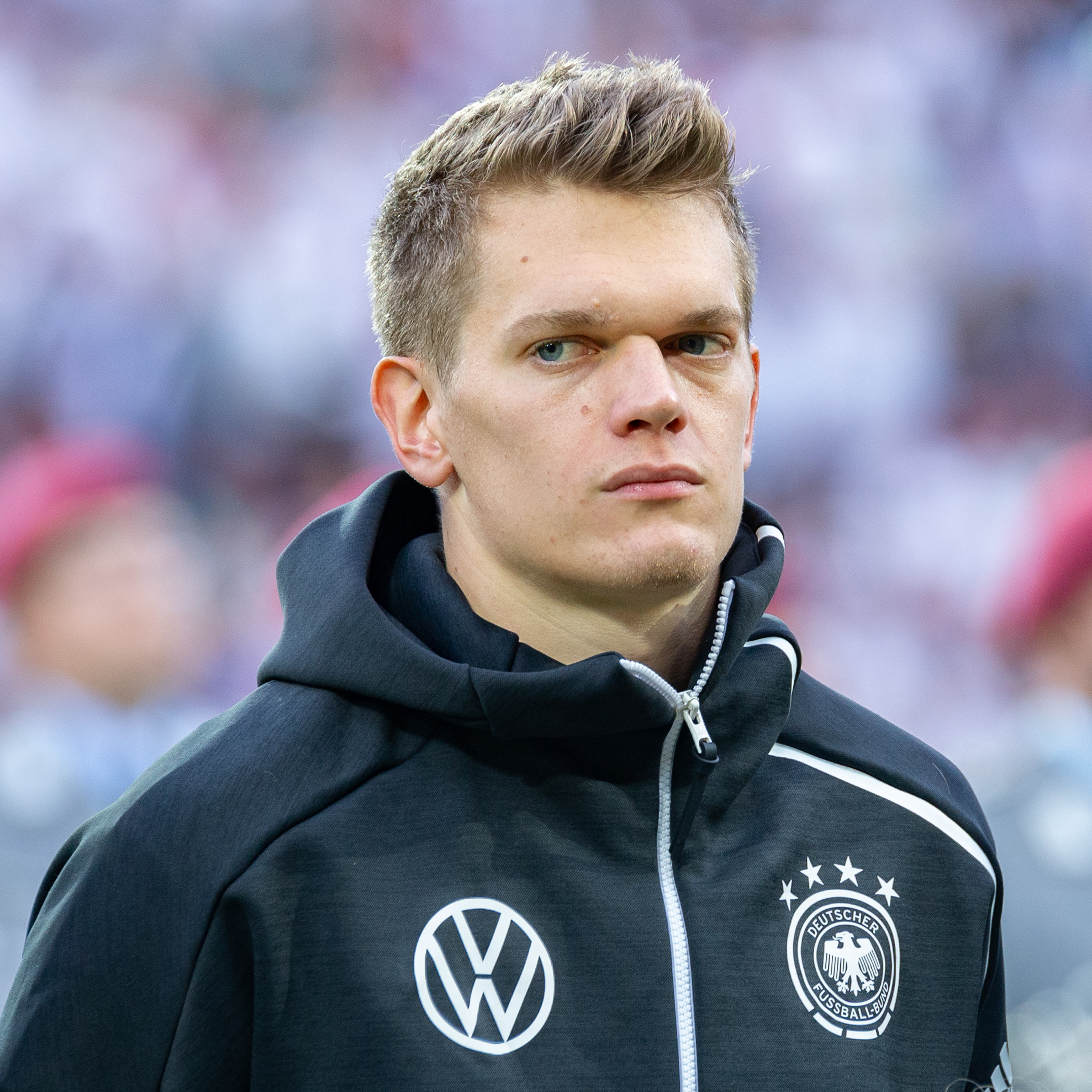 UEFA Euro 2020 qualifier Germany-Estonia